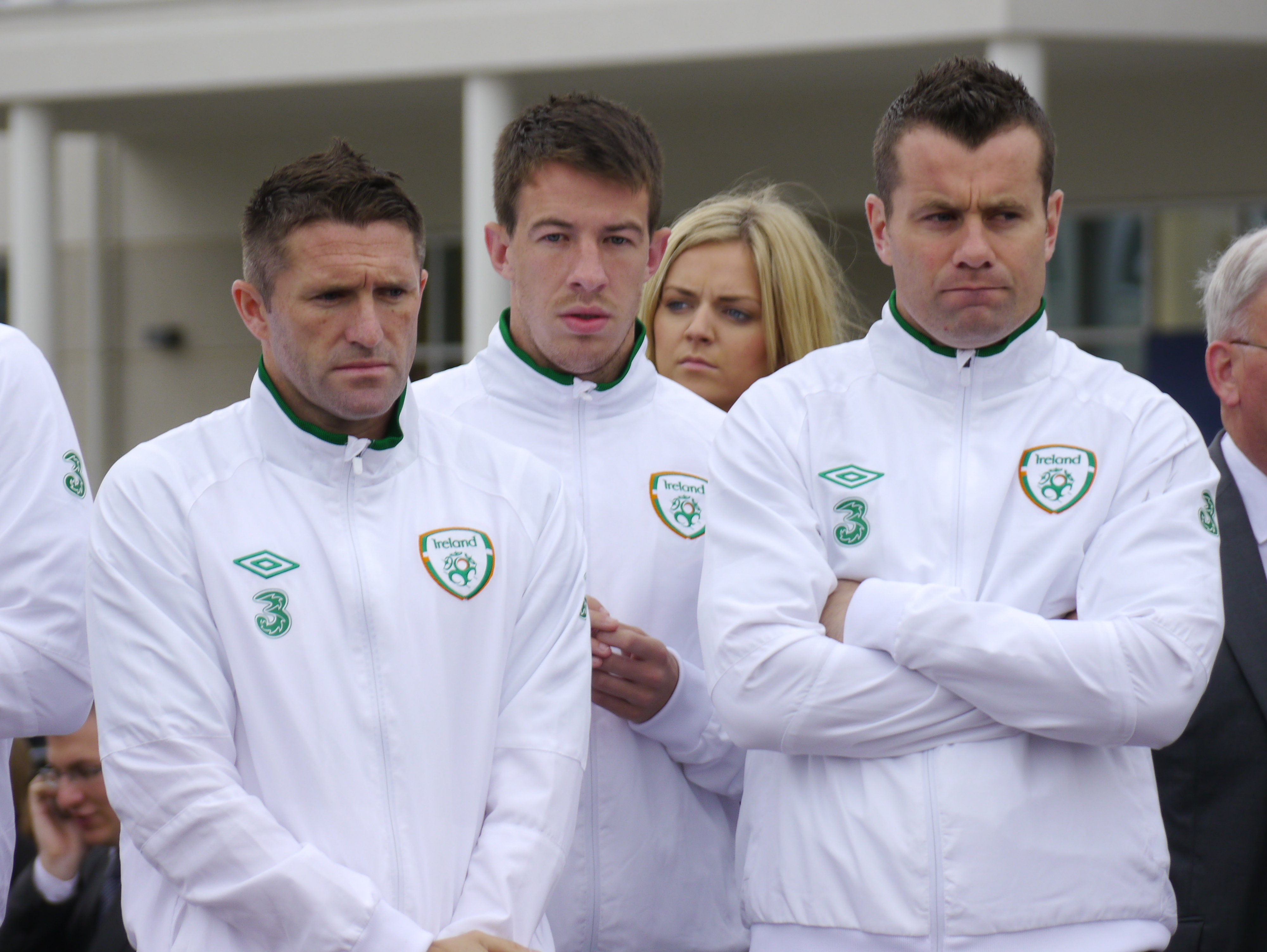 Irish football players Robbie Keane, Sean St Ledger and Shay Given during "welcome ceremony" in Sopot, just before EURO 2012